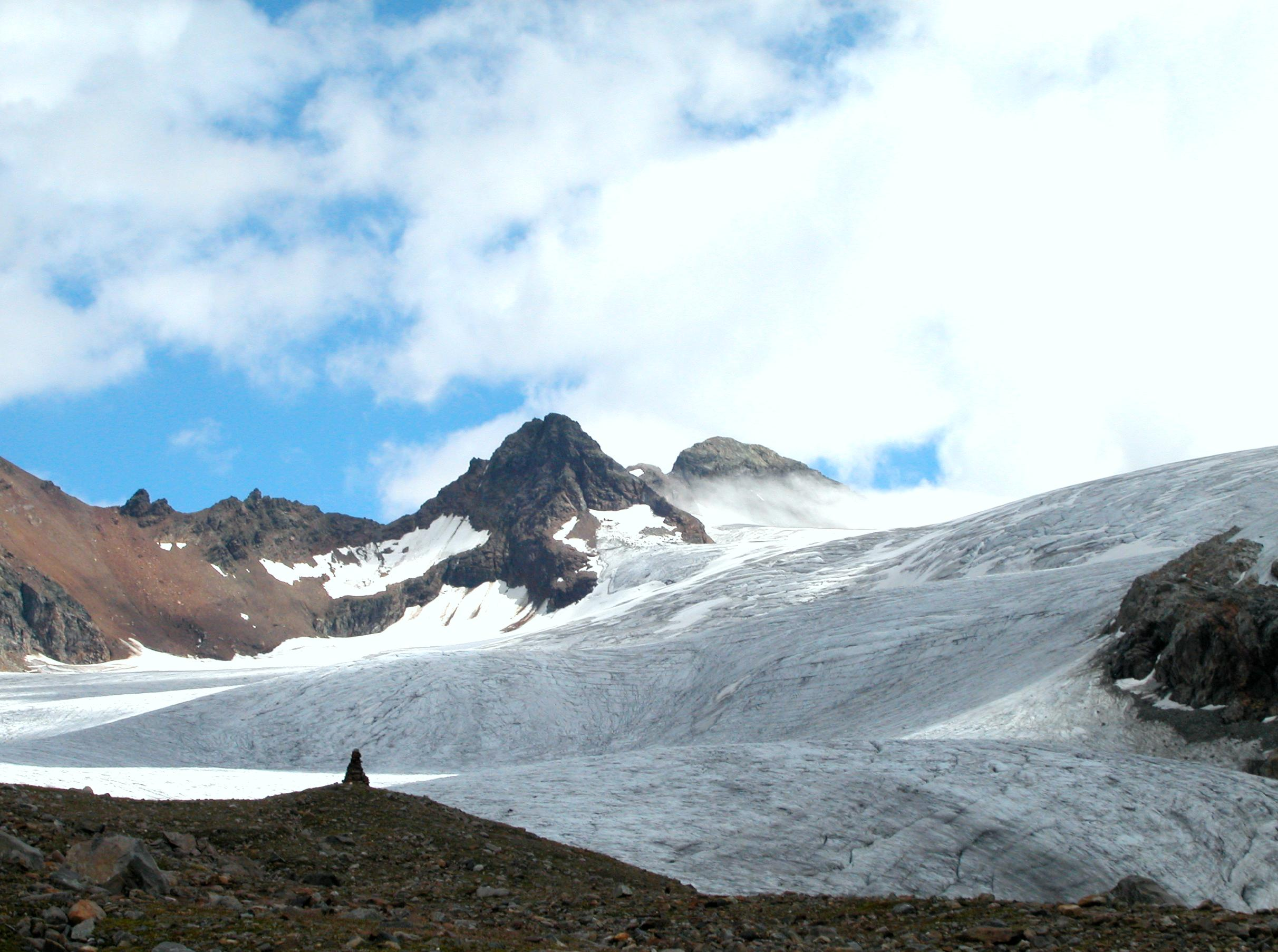 Silvretta glacier in Graubünden, view on the Egghorn and Signalhorn (clouds).